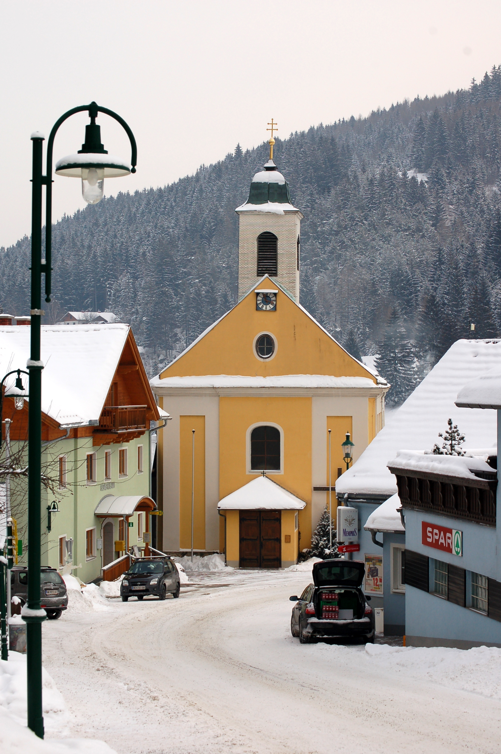 Holy Trinity parish church in Trattenbach, Lower Austria